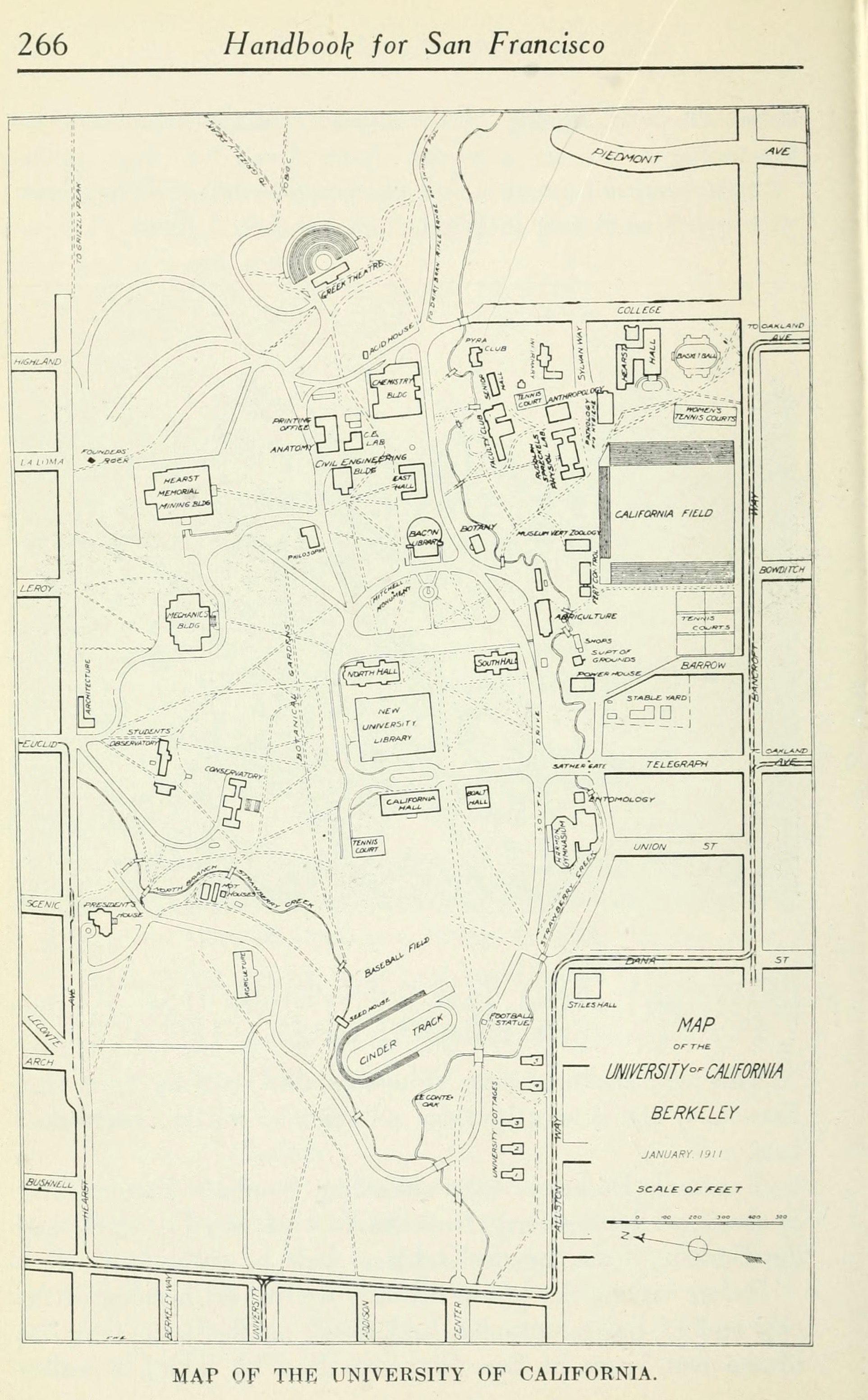 Title: The Chamber of commerce handbook for San Francisco, historical and descriptive; a guide for visitors .. Year: 1914 (1910s) Authors: Todd, Frank Morton Greater San Francisco Chamber of Commerce Subjects: Publisher: San Francisco, San Francisco Chamber of commerce under the direction of the Publicity committee Text Appearing Before Image: THE HEAIJST (JHEKK THHATHH, I5EHKKLEV. BERKELEY AND THE UNIVERSITY OF CALI-FORNIA—THE HEARST GREEK THEATER. This will make a most enjoyable days outing from SanFrancisco, and is an experience no visitor to this locality shouldmiss. To reach Berkeley, take either the Southern Pacific ferryor the Key System ferry from the foot of Market street, andthe Berkeley train, on the Oakland mole of either line. Before visiting the University it is well to get an idea of thecity and of bay geography, and to see at the same time oneof the best views of San Francisco Bay by taking a trolley 266 Handbook for San Francisco Text Appearing After Image: MAP OF THE UNIVERSITY OF CALIFORNIA. The Hearst Greek Theater 267 ride on the Cragmont car, of the Euclid avenue line, whichyou can board on University avenue at Shattuck. The University of California occupies 520 acres on theslopes of the Berkeley hills, commanding a view of the Bayof San Francisco and some times far out to sea; one of thegrandest and most inspiring locations for an institution ofthis kind. There are groves of pine, eucalyptus and ancient oaks. Thearchitecture of the new buildings is imposing and beautiful. The world-famous Creef( Theater, gift of William Ran-dolph Hearst, lies eastward of the main buildings, in a hollowof Charter Hill, once known as Ben Weeds Amphitheater.It seats 8,000 people, and here have appeared such artists asSchumann-Heink, Gadski, Nordica, Tetrazzini, Bispham,Wullner, Petchinikoff, Beel, Adele Verne, Josef Hoffman,Myrtle Elvyn, the Ben Greet players, Constance Crawley,Nance ONeill, Maude Adams, Margaret Anglin and SarahBernhardt—some of th